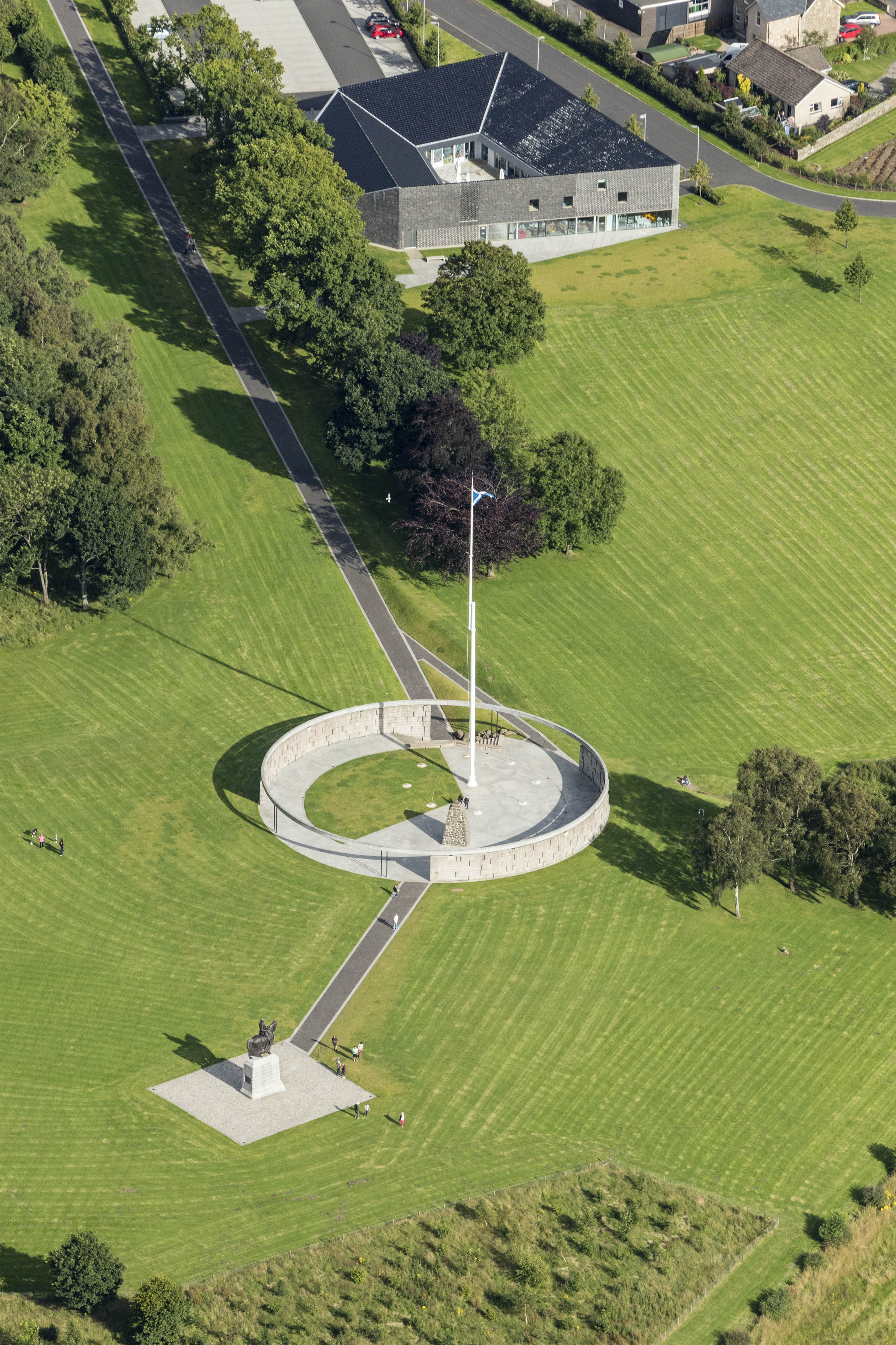 Aerial view of the Bannockburn Visitors Centre and statue of Robert The Bruce, Bannockburn, Scotland Wikidata has entry Q17568248 with data related to this item.